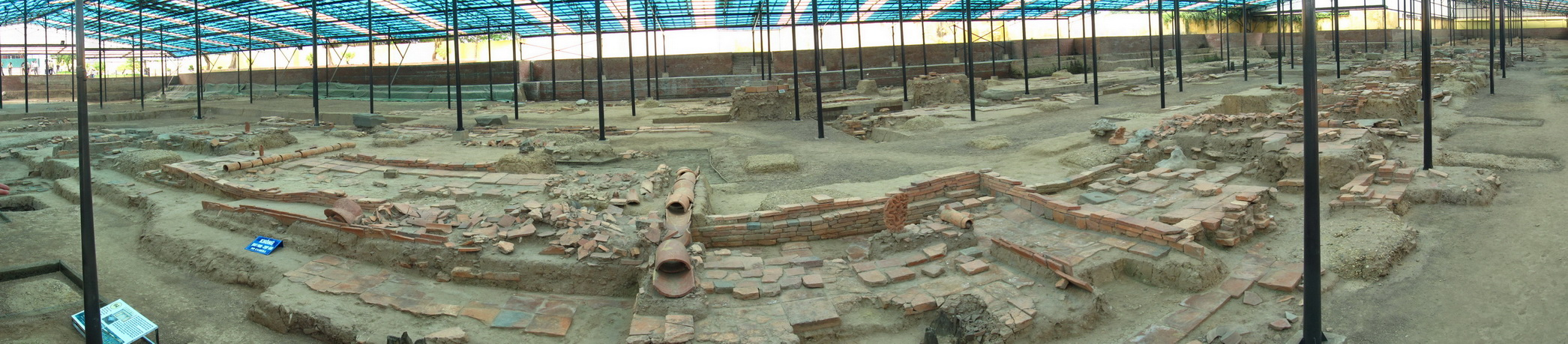 A panoramic view of the relic of the Imperial Citadel of Thang Long.